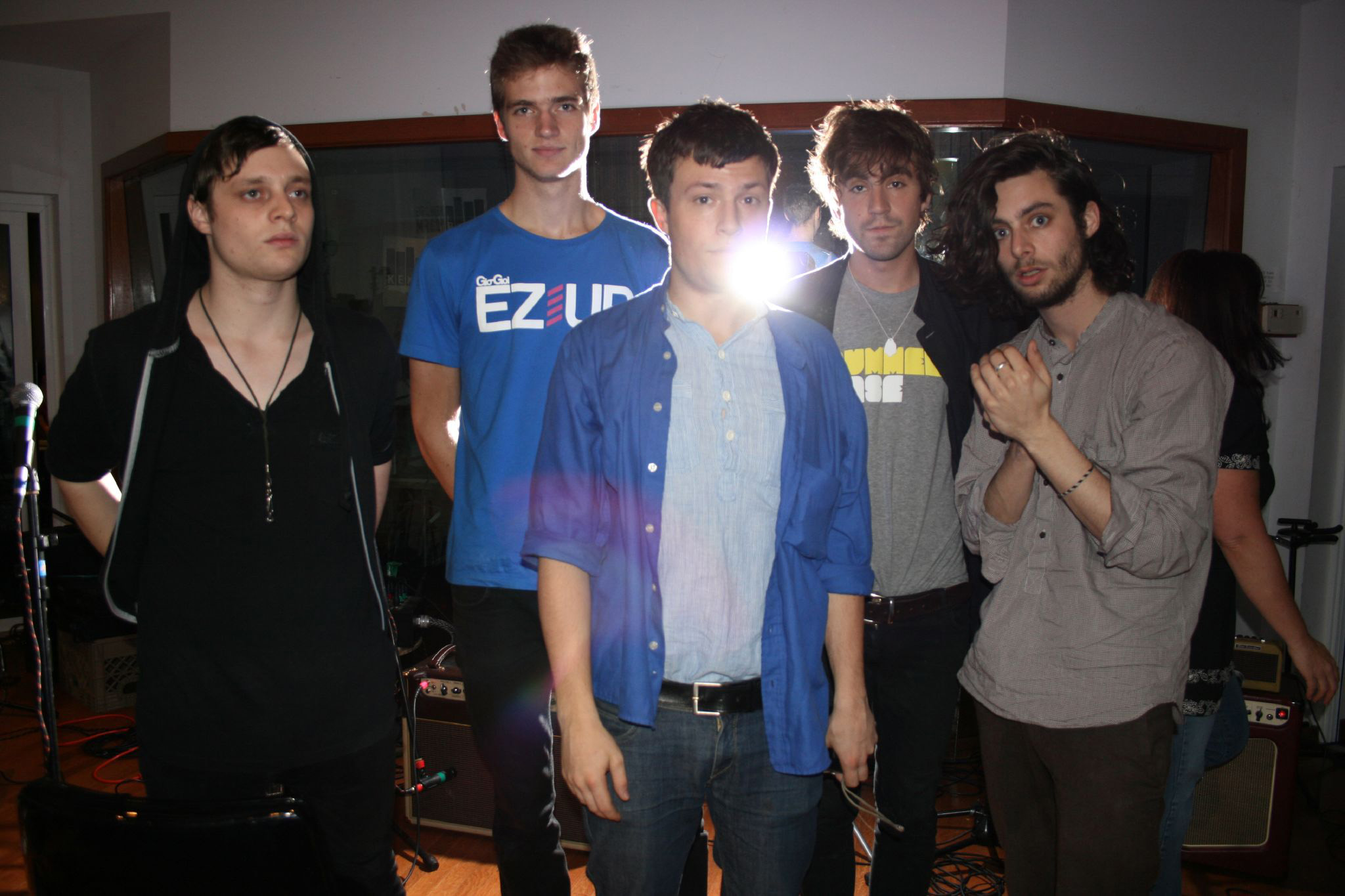 British band The Maccabees